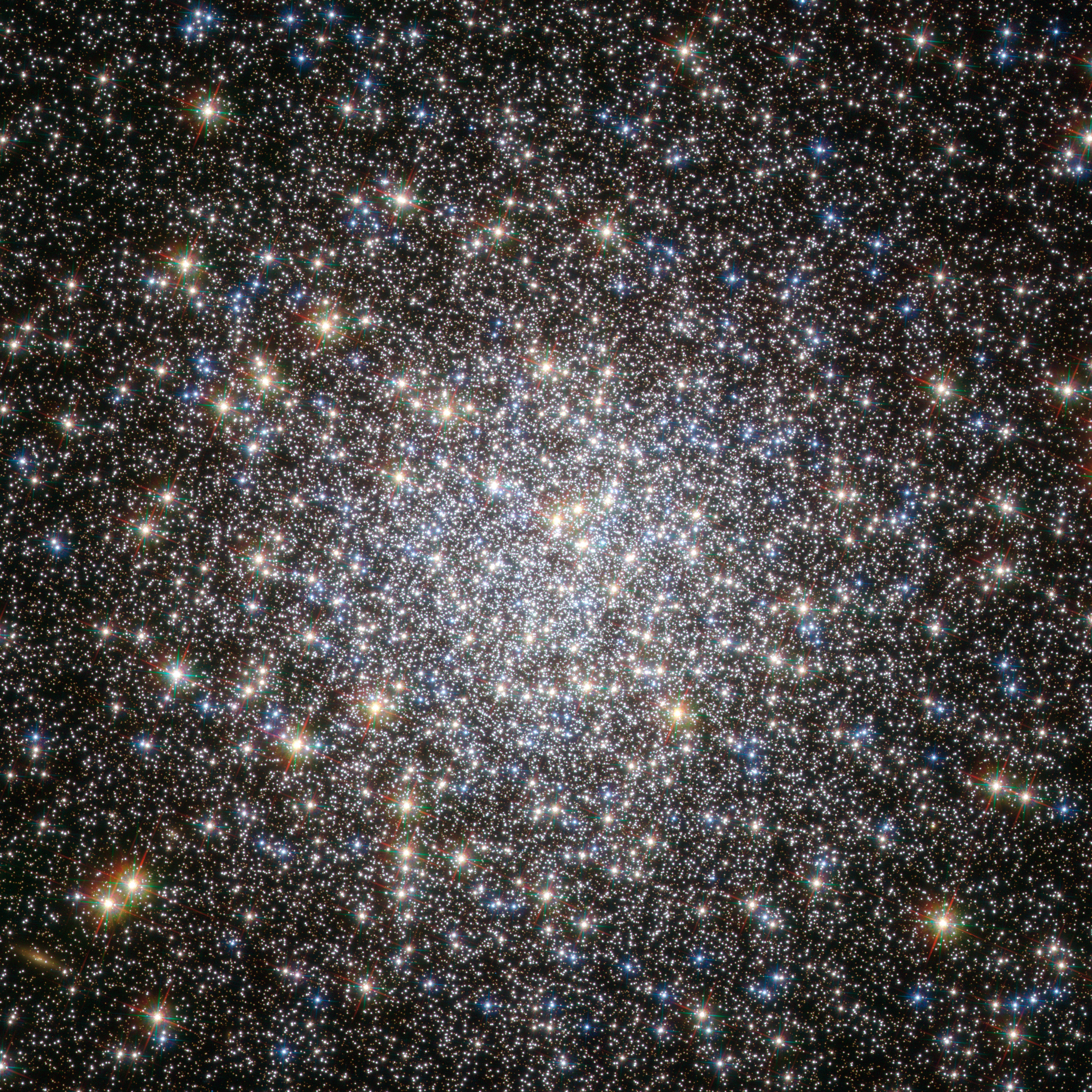 The globular cluster Messier 5, shown here in this NASA/ESA Hubble Space Telescope image, is one of the oldest belonging to the Milky Way. The majority of its stars formed more than 12 billion years ago, but there are some unexpected newcomers on the scene, adding some vitality to this aging population. Stars in globular clusters form in the same stellar nursery and grow old together. The most massive stars age quickly, exhausting their fuel supply in less than a million years, and end their lives in spectacular supernovae explosions. This process should have left the ancient cluster Messier 5 with only old, low-mass stars, which, as they have aged and cooled, have become red giants, while the oldest stars have evolved even further into blue horizontal branch stars. Yet astronomers have spotted many young, blue stars in this cluster, hiding amongst the much more luminous ancient stars. Astronomers think that these laggard youngsters, called blue stragglers, were created either by stellar collisions or by the transfer of mass between binary stars. Such events are easy to imagine in densely populated globular clusters, in which up to a few million stars are tightly packed together. Messier 5 lies at a distance of about 25 000 light-years in the constellation of Serpens (The Snake). This image was taken with Wide Field Channel of Hubble’s Advanced Camera for Surveys. The picture was created from images taken through a blue filter (F435W, coloured blue), a red filter (F625W, coloured green) and a near-infrared filter (F814W, coloured red). The total exposure times per filter were 750 s, 400 s and 567 s, respectively. The field of view is about 2.6 arcminutes across.